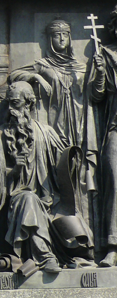 Olga of Kiev on the Monument "Millennuim of Russia" in Veliky Novgorod